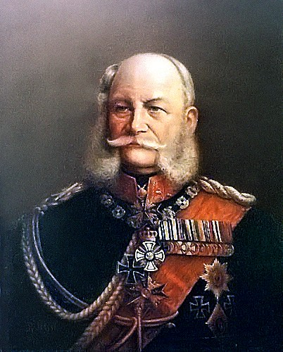 Wilhelm I Hohenzollern Emperor of Germany